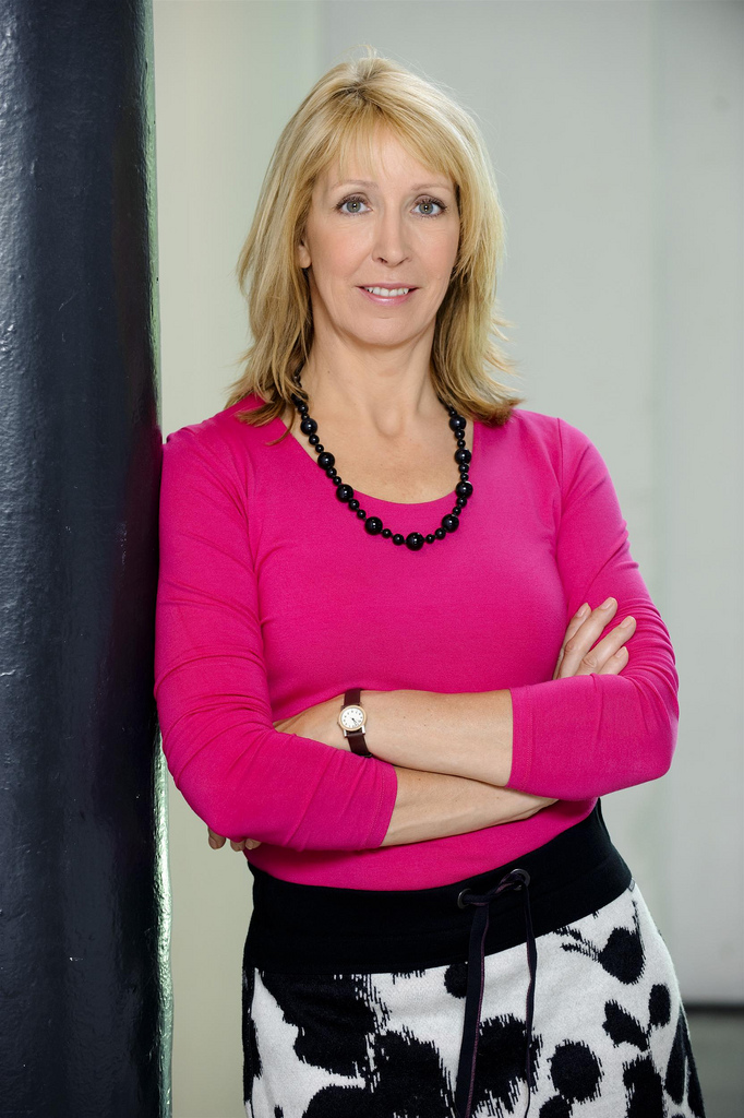 Liesbeth van Tongeren, executive director of GreenPeace Netherlands and candidate MP for the GreenLeft